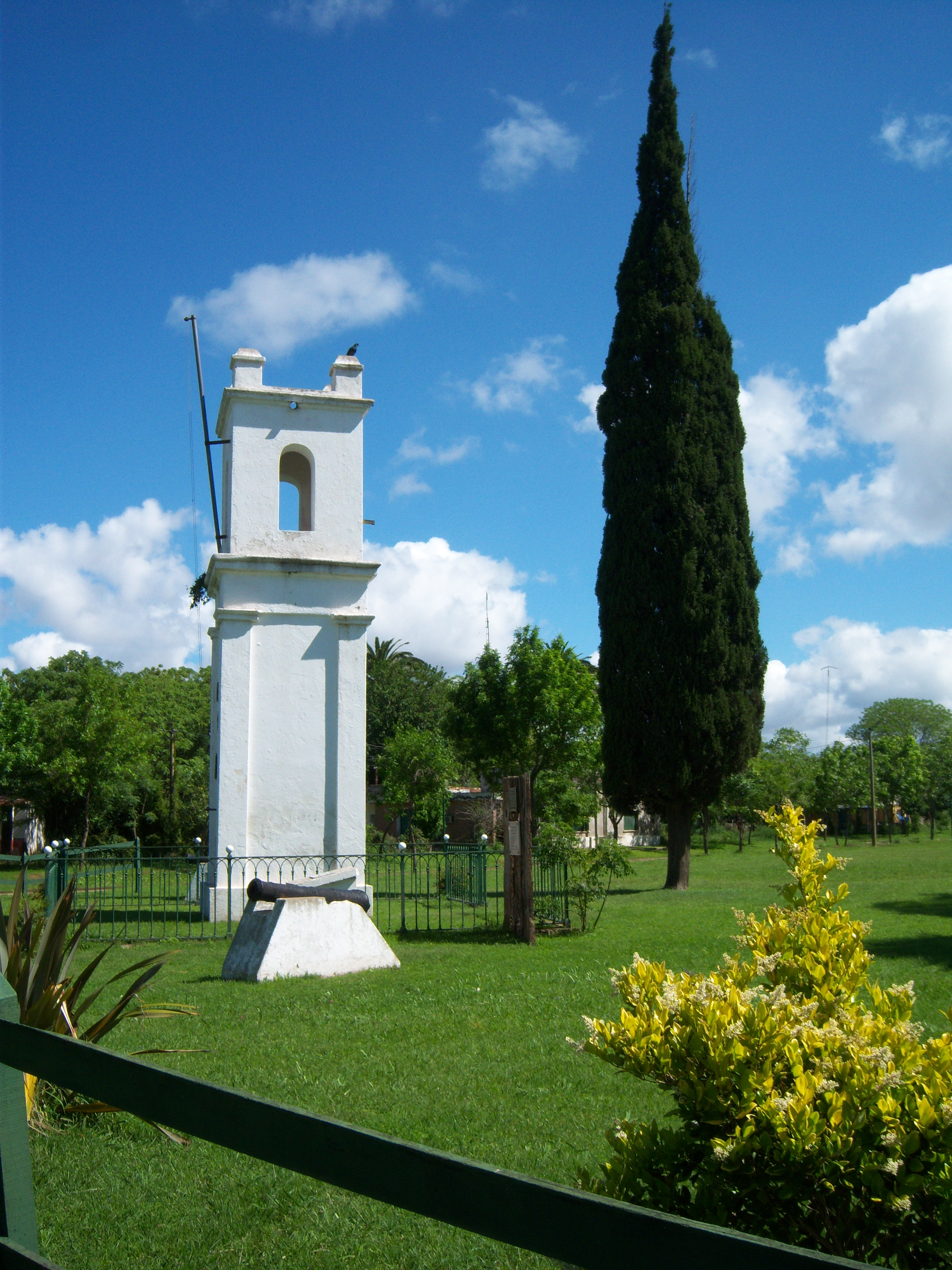 Mangrullo o Mirador de Melincué.